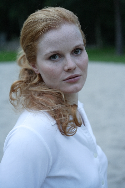 Annett Boehm - German Judoka - privat